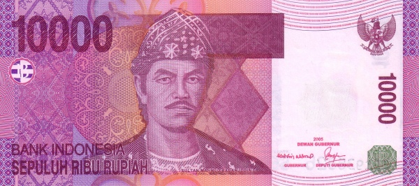 Indonesian currency issued 1998-2005.